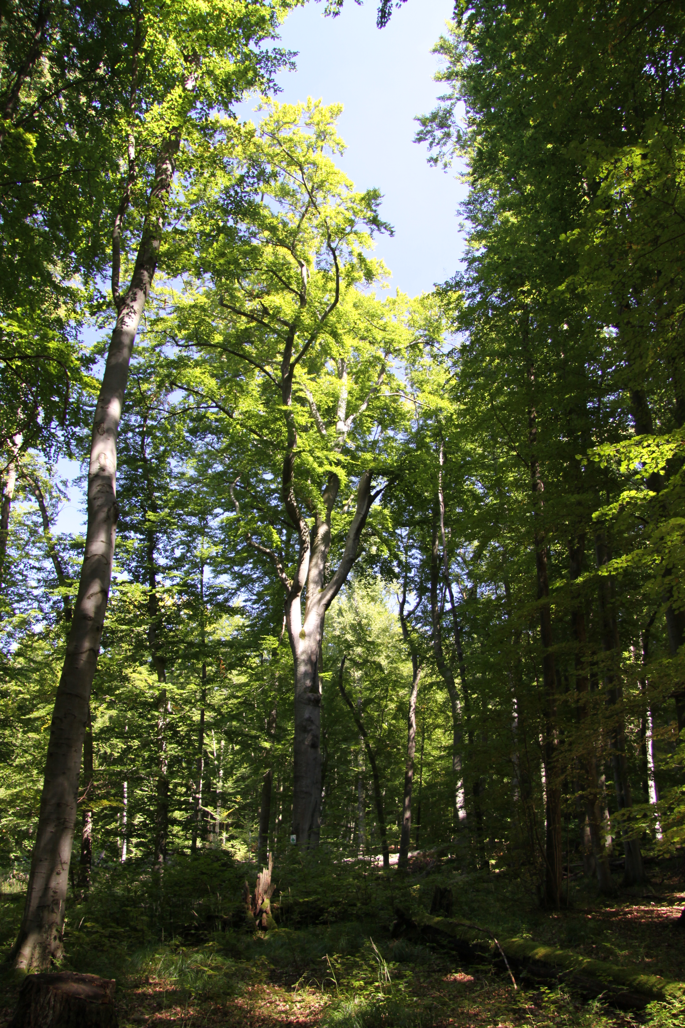 Natural reservation called "Čertova hora u Vráže", Písek District, Czech Republic - Google Maps - Google Earth